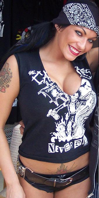 Shelly Martinez signing autographs @ AWS Event on November 4, 2007 in City of Industry CA.